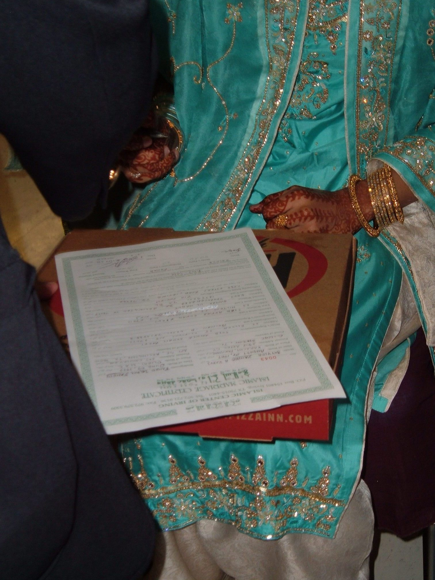 A woman (face unseen) in a sparkling salwar kameez, bangles and with henna decorated hands signs the Nikah, the Muslim marriage contract.